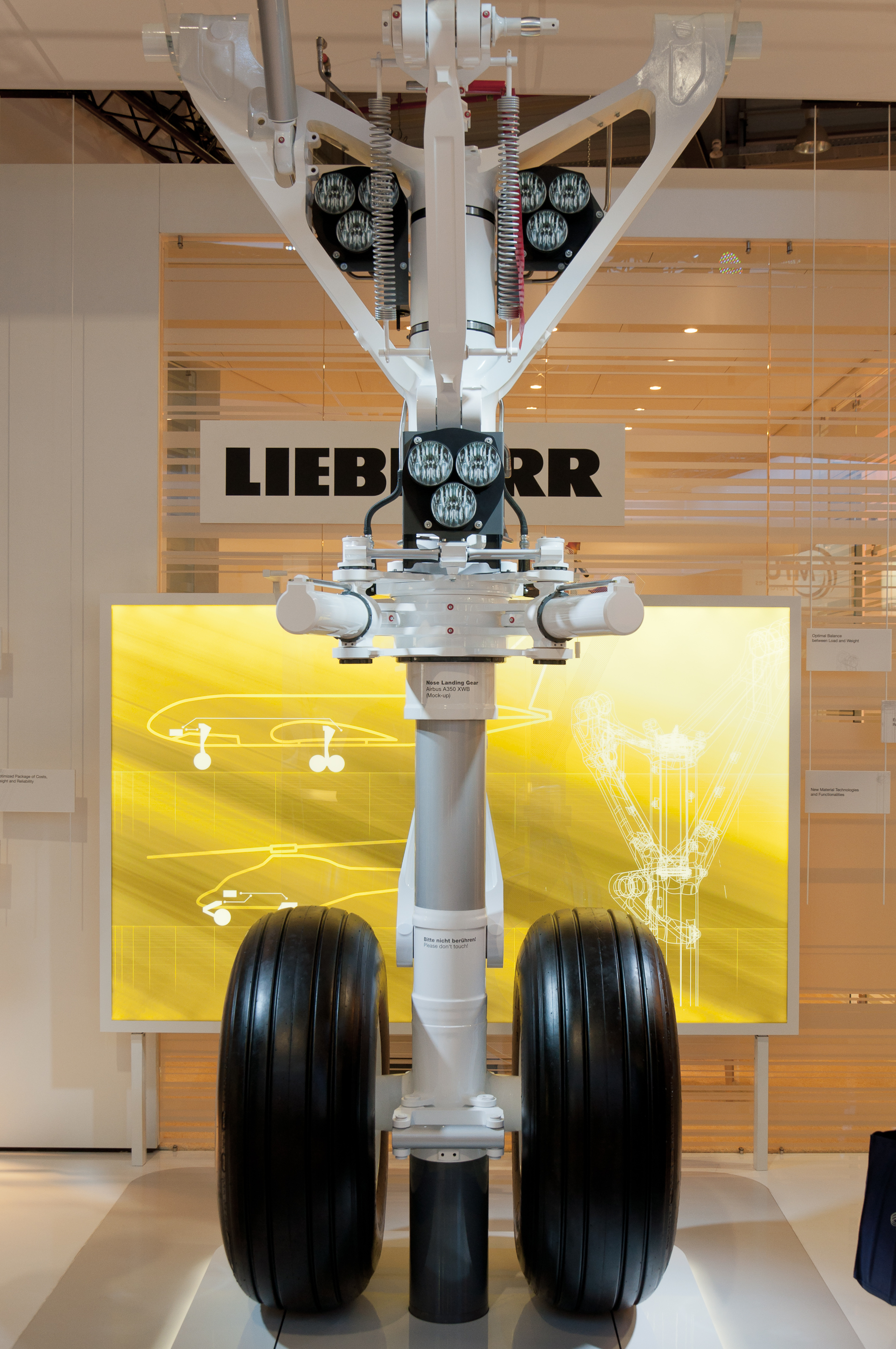 Nose Landing Gear Mock-up of an Airbus A350 XWB, presented by Liebherr on ILA Berlin Air Show 2012.